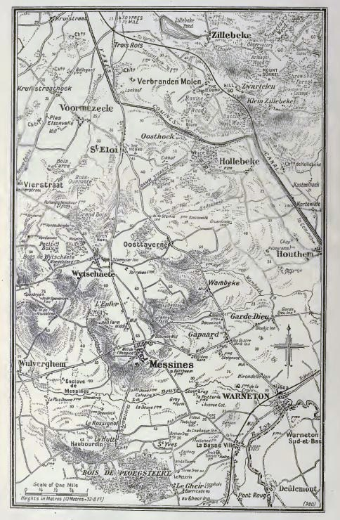 Messines district summer, 1917